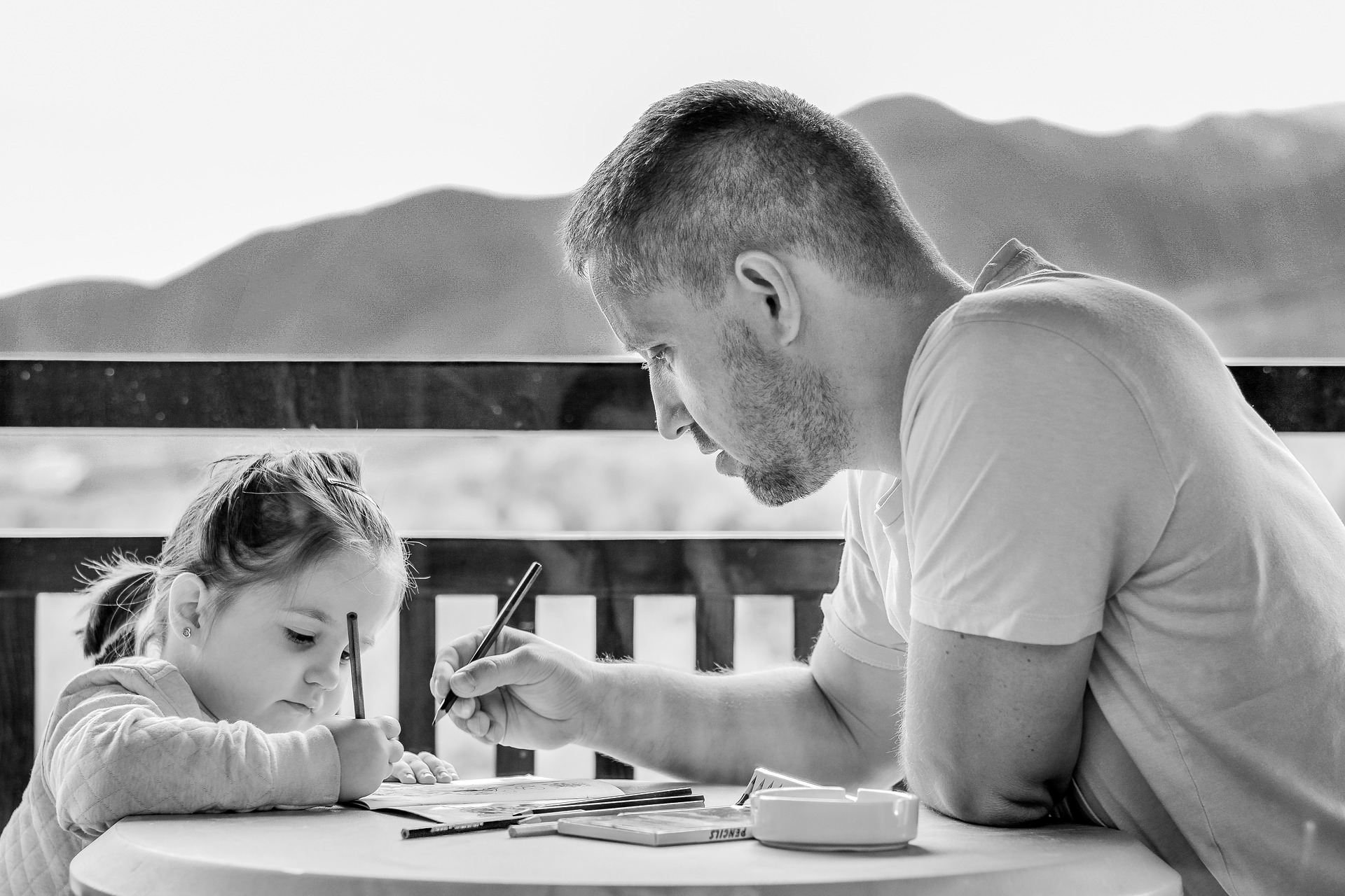 Father teaching daughter to draw